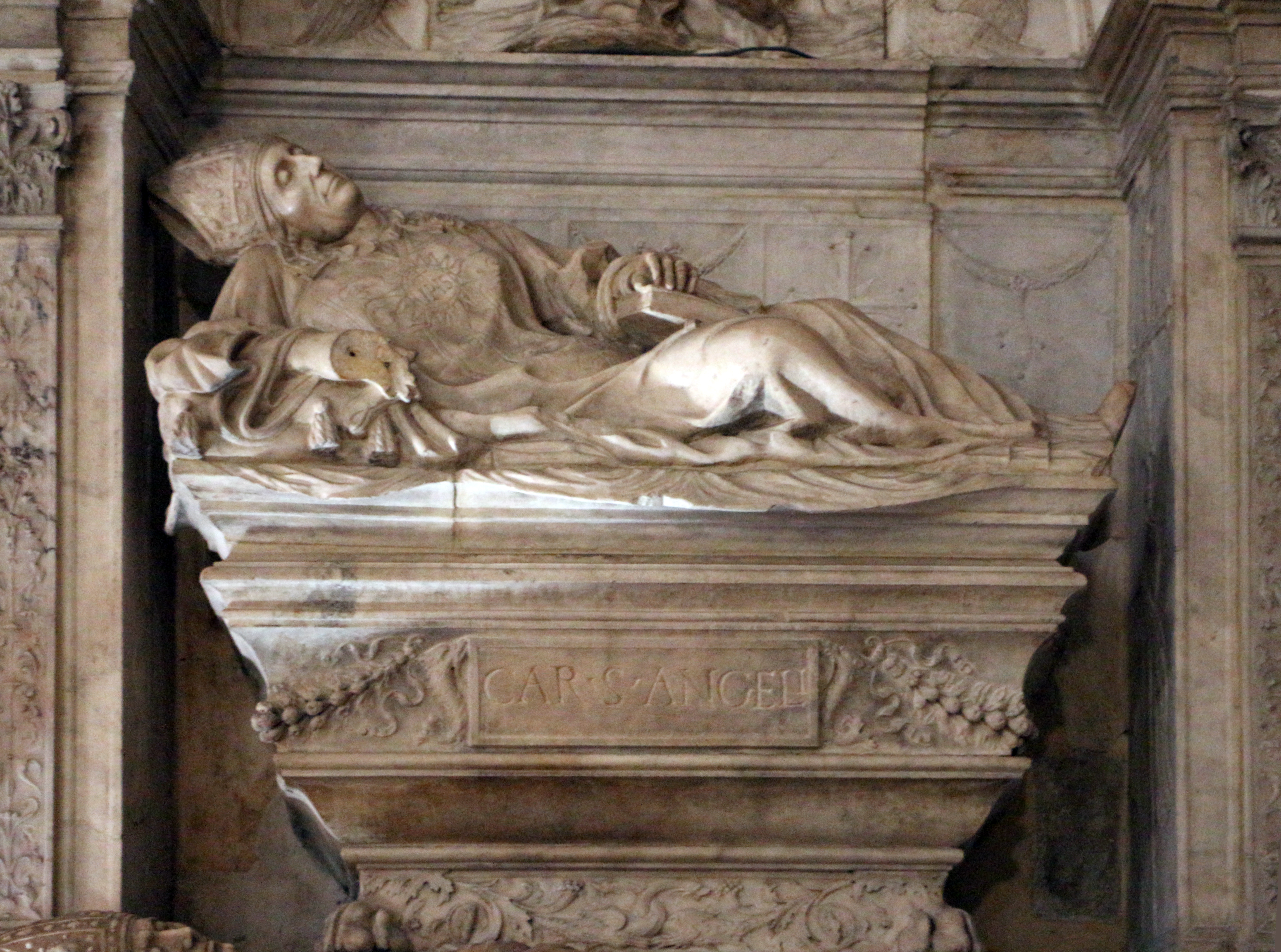 Monument to Giovanni Michiel and Antonio Orso by Jacopo Sansovino